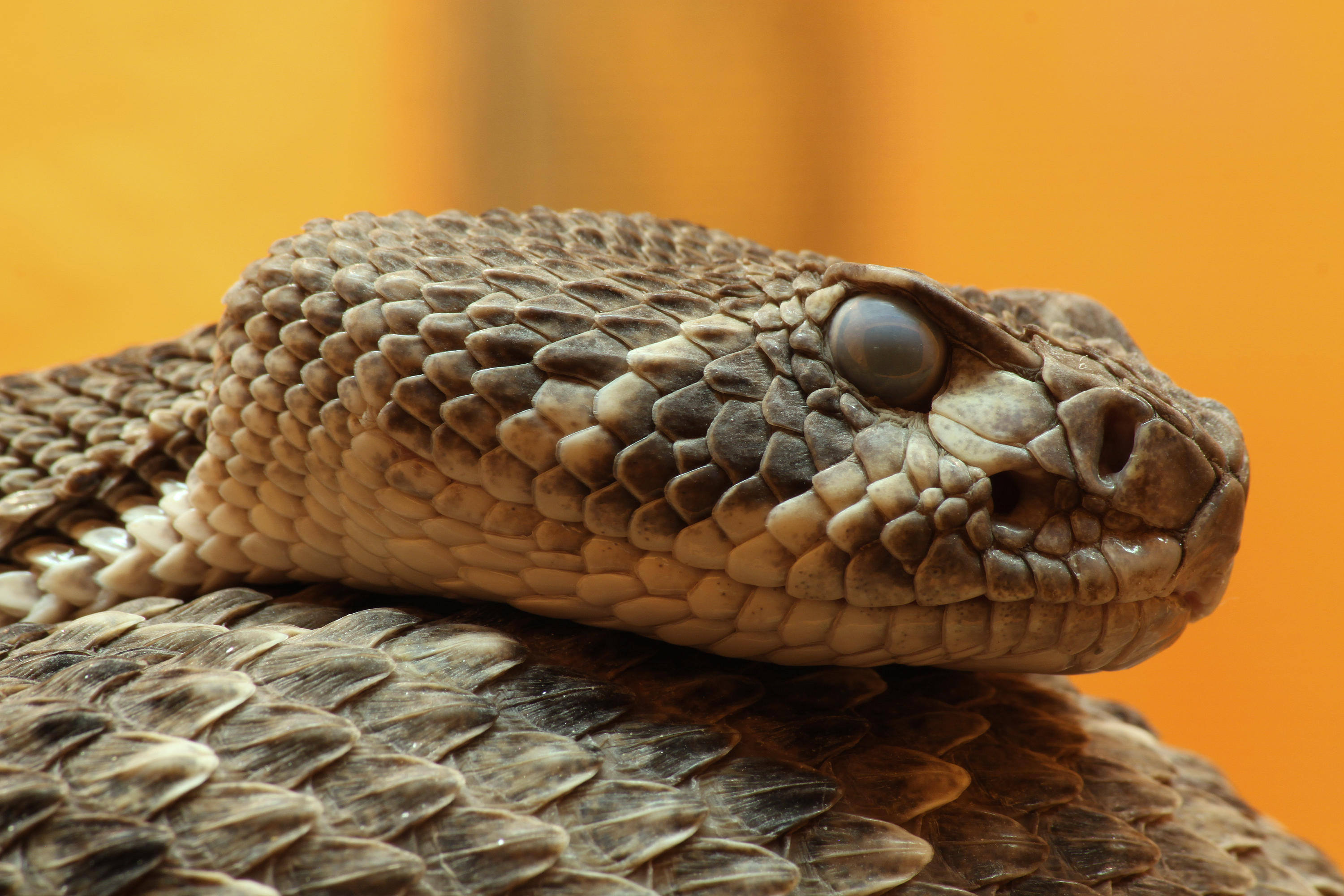 Western Diamondback Rattlesnake, Crotalus atrox, Family: Viperidae, Location: Germany, Ulm, Zoological Garden